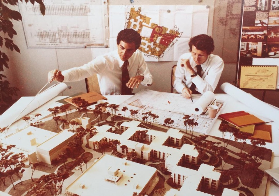 René Sivlin working with a colleague on the model of the hospital they were designing in Bonn, Germany